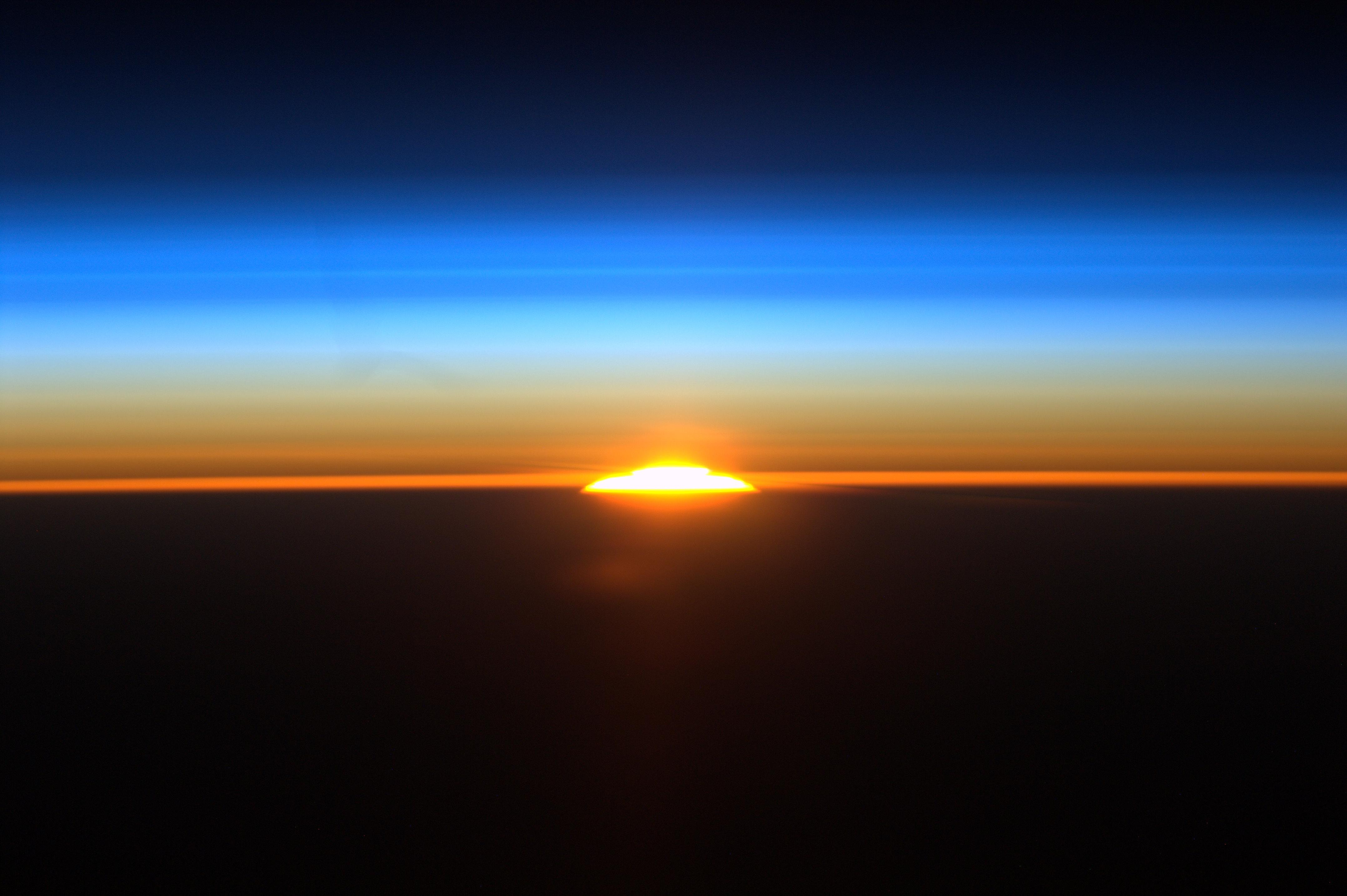 On Sat., Aug. 27, 2011, International Space Station Astronaut Ron Garan pointed an HD camera out a window of the Cupola to film one of the sixteen sunrises astronauts see each day. This sunrise image shows the rising sun as the International Space Station flew along a path between Rio de Janeiro, Brazil and Buenos Aires, Argentina.